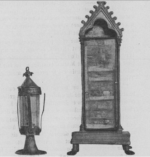 The two reliquaries of église St Martin in Triguères. The one on the left is XIIth century silver and cut crystal. It is dedicated to St Martin's finger, and actually holds a phalanx bone as well as another bone said to be from St Louis, the second patron of the church. The one on the right is a XIIIth century copper box holding relics from several saints and traces of the true cross. It used to be encased in a leather box, which is held in the museum of Montargis since around 1860 when it was found again in a corner of the church.